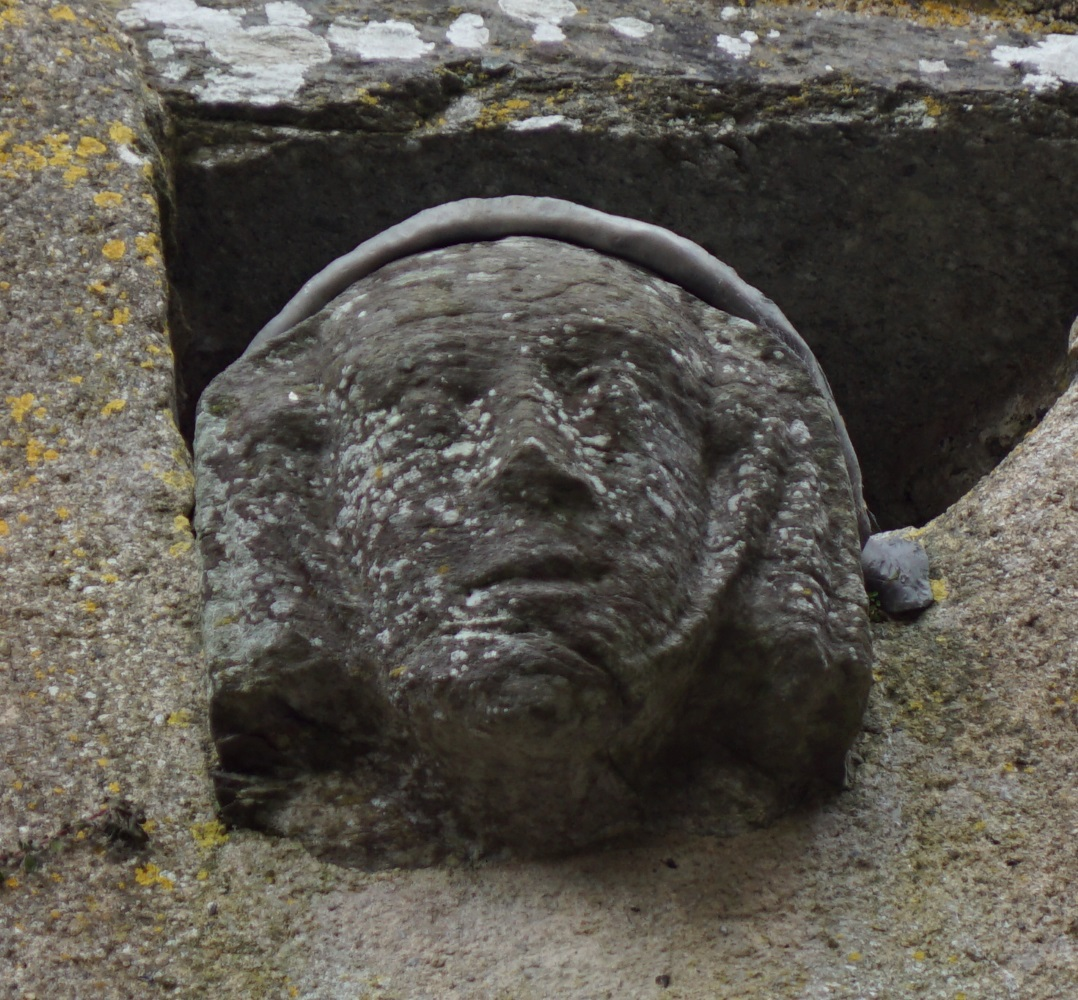 St. Davids Bishop's Palace, St. Davids, Wales, United Kingdom. Carved corbel.